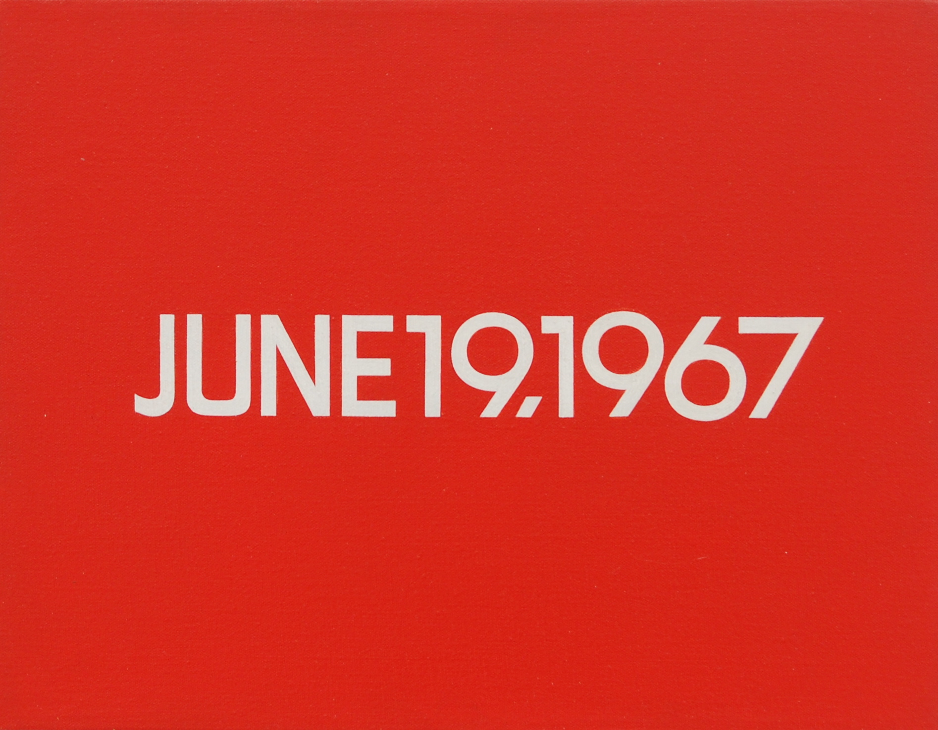 6 Works, 6 Rooms at David Zwirner, New York